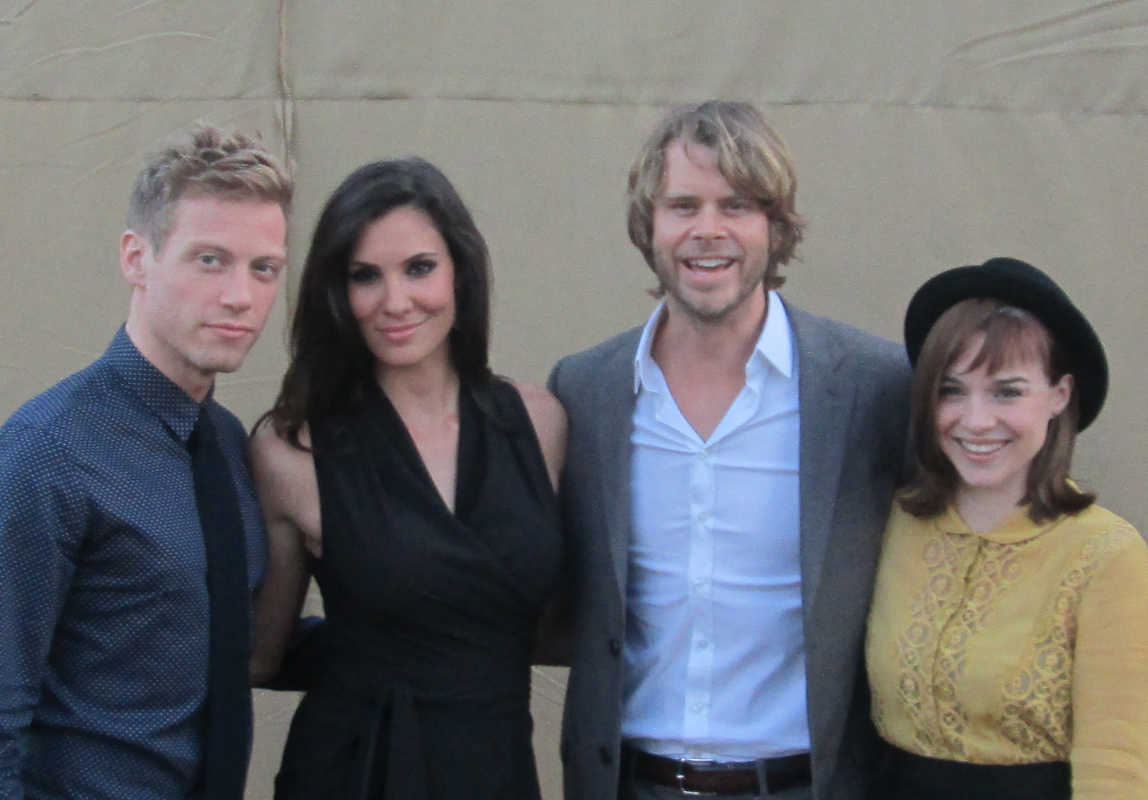 The cast of NCIS: Los Angeles